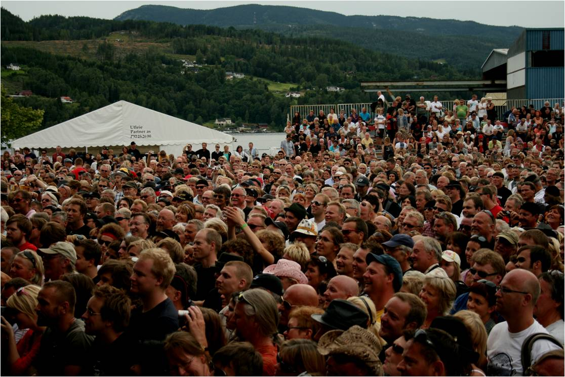 Public at Notodden Blues Festival 2009 mainstage Brygga 2009